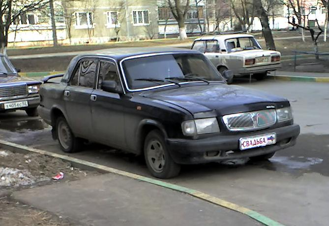 GAZ-3110 Volga. Late modification with volume bumpers.